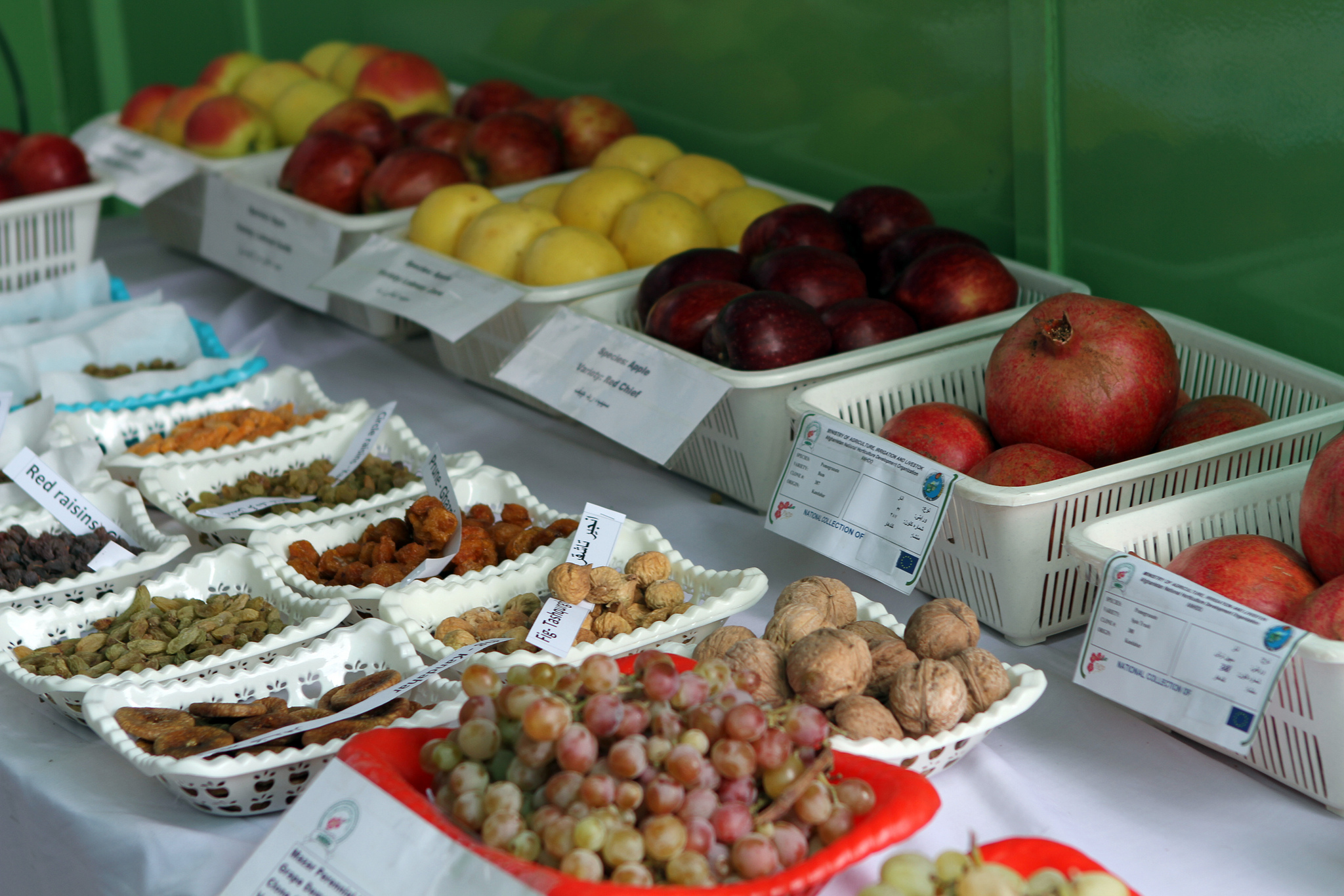 Samples of fresh and dried fruit at the Agfair event in Afghanistan